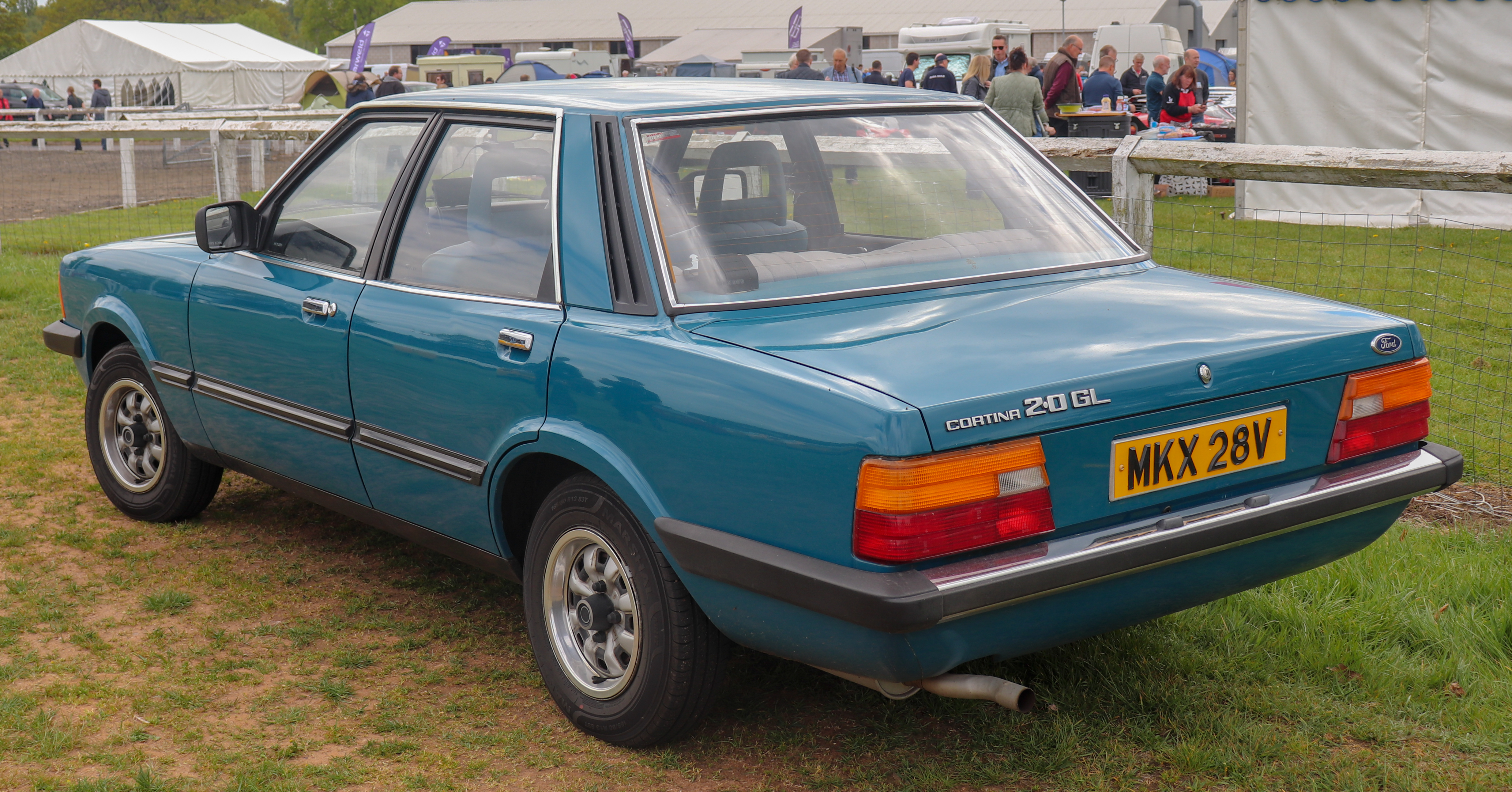 1980 Ford Cortina GL 2.0 Rear Taken in Stoneleigh, Warwickshire